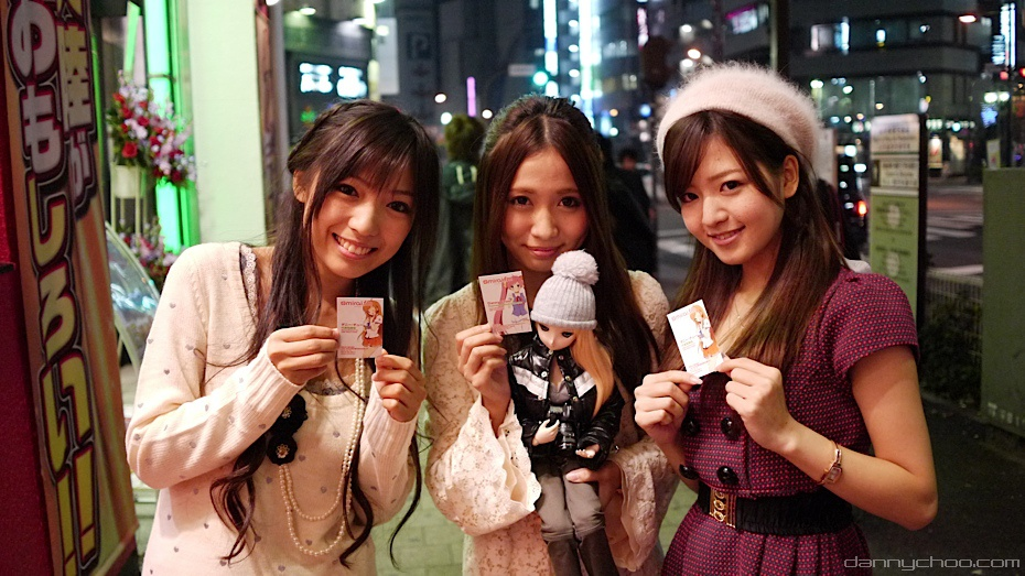 Today we are doing some filming for Culture Japan with the Sega Sammy Group at a Pachinko parlor in Ikebukuro. I have with me (from left to right) the lovely Minori Kawahara [河原実乃梨], Mao Kozuka [小塚 麻央] and Arisa Matsui [松井ありさ]. The 3 of them together are also known as the Amusement Girls. View more at